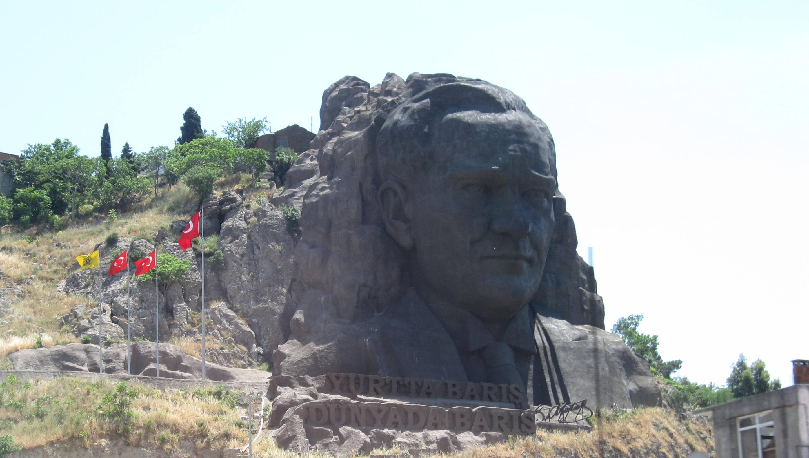 Ataturk statue in Izmir